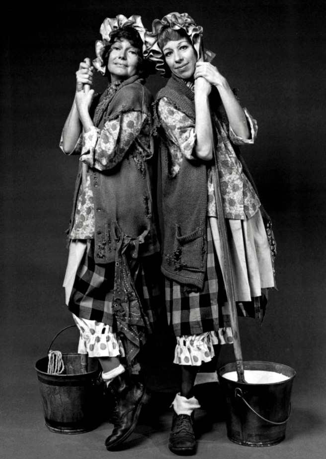 Photo of guest star Rita Hayworth and Carol Burnett from the television program The Carol Burnett Show. One of Burnett's best-known characters was the "cleaning lady"; Burnett and Hayworth are both in costume for that character.